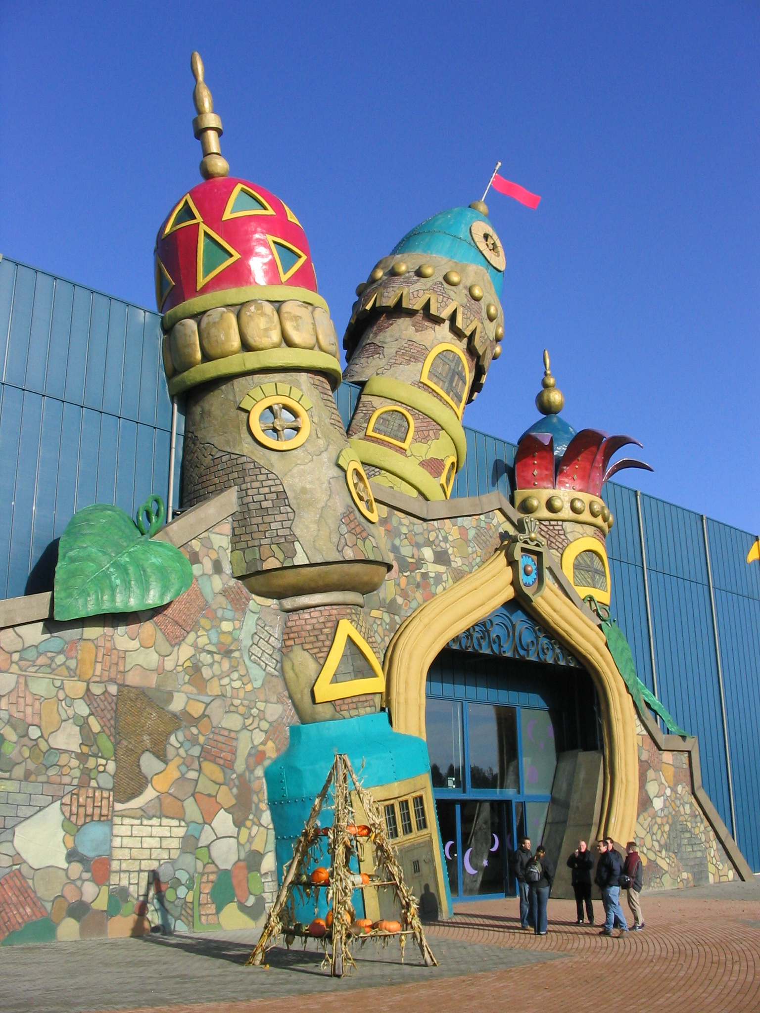 Entrance Toverland